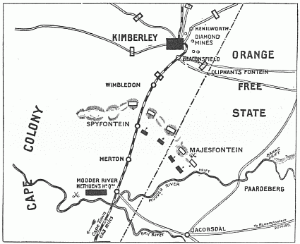 Map showing positions at the Battle of Magersfontein, 11 December 1899. Boer positions : white boxes British positions : black boxes